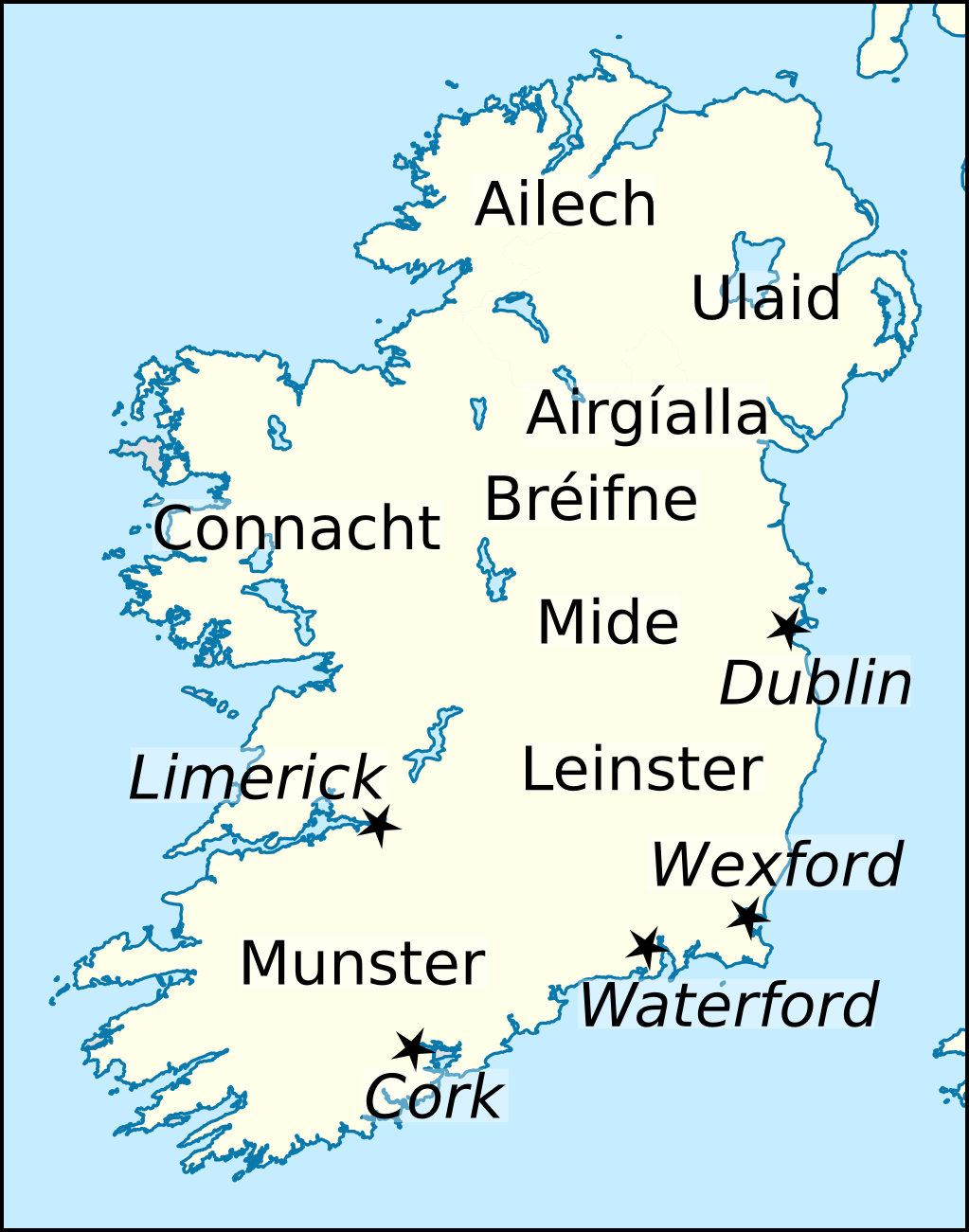 Locations of Norse-Gaelic enclaves (marked with stars and italics) and Irish kingdoms before the arrival of the Anglo-Normans in the late twelfth century.